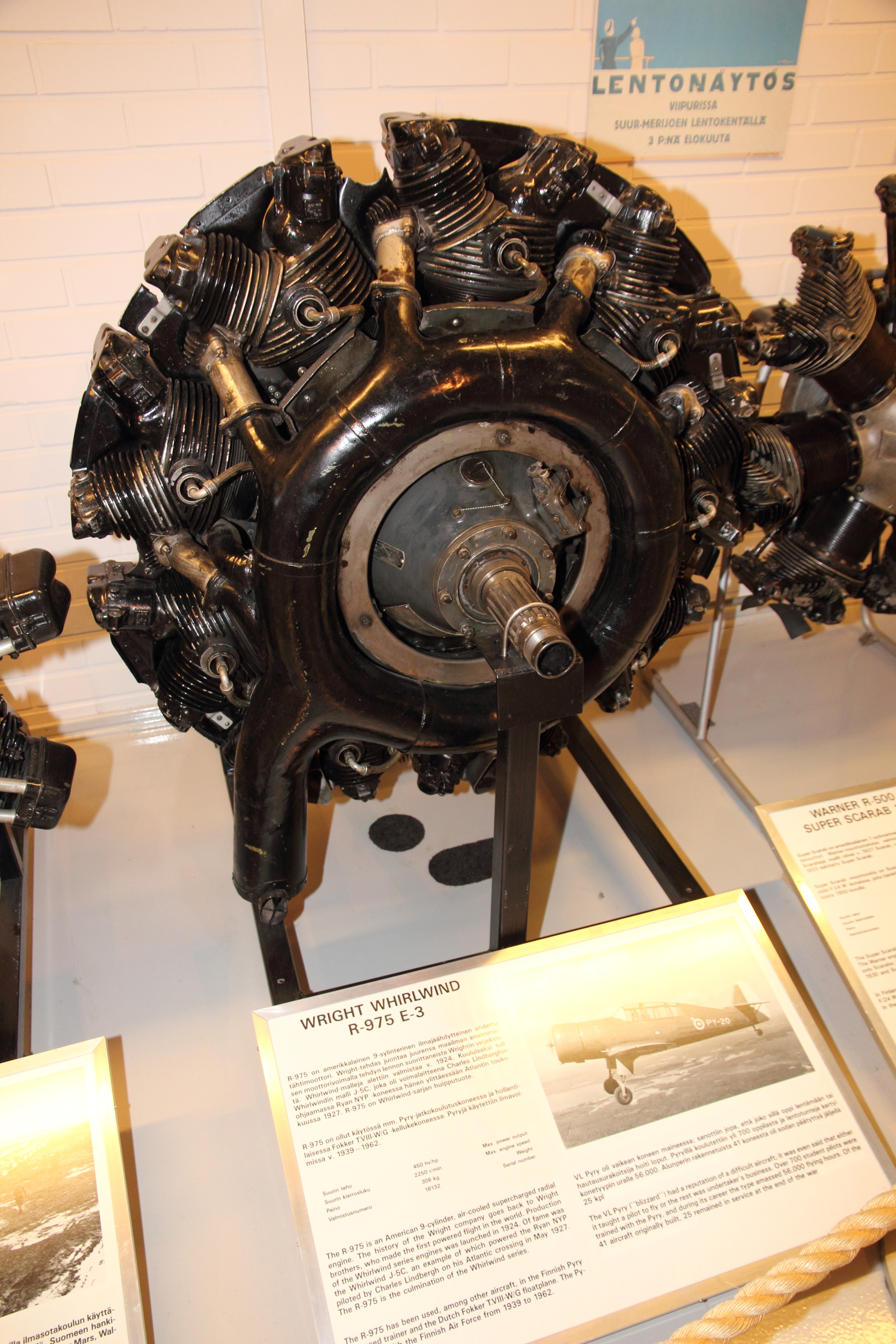 Wright Whirlwind R-975 E-3 aircraft engine serial number 18132 in the Aviation Museum of Central Finland.